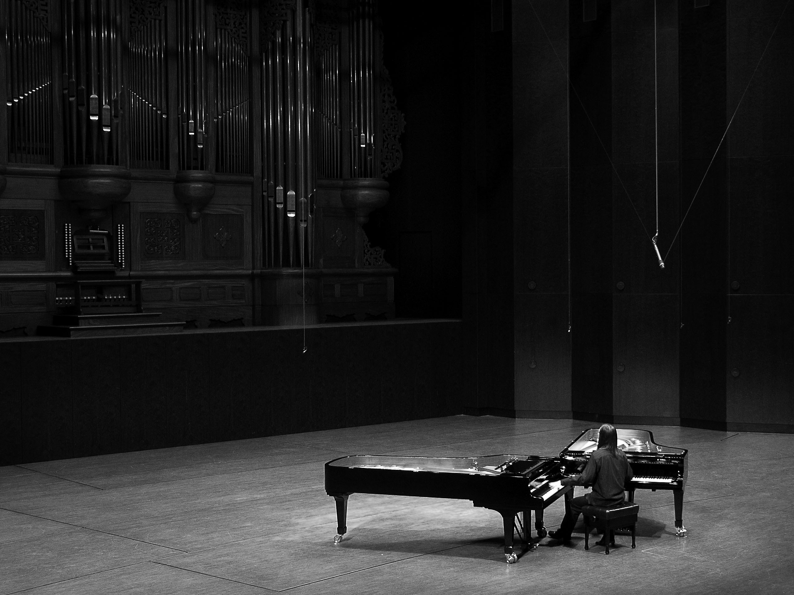 featuring music from Steve Reich: piano phase for 2 pianos, 1 performer version, by Peter Aidu.